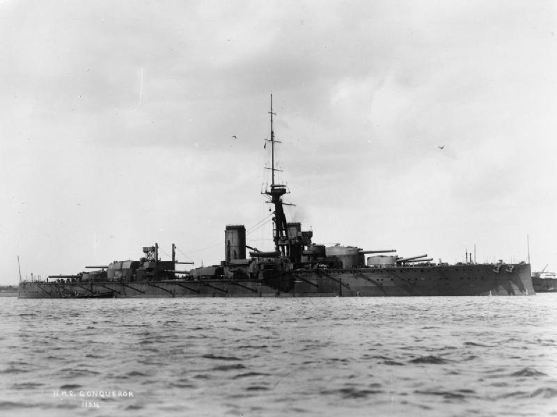 British Battleships of the First World War HMS CONQUEROR as completed.